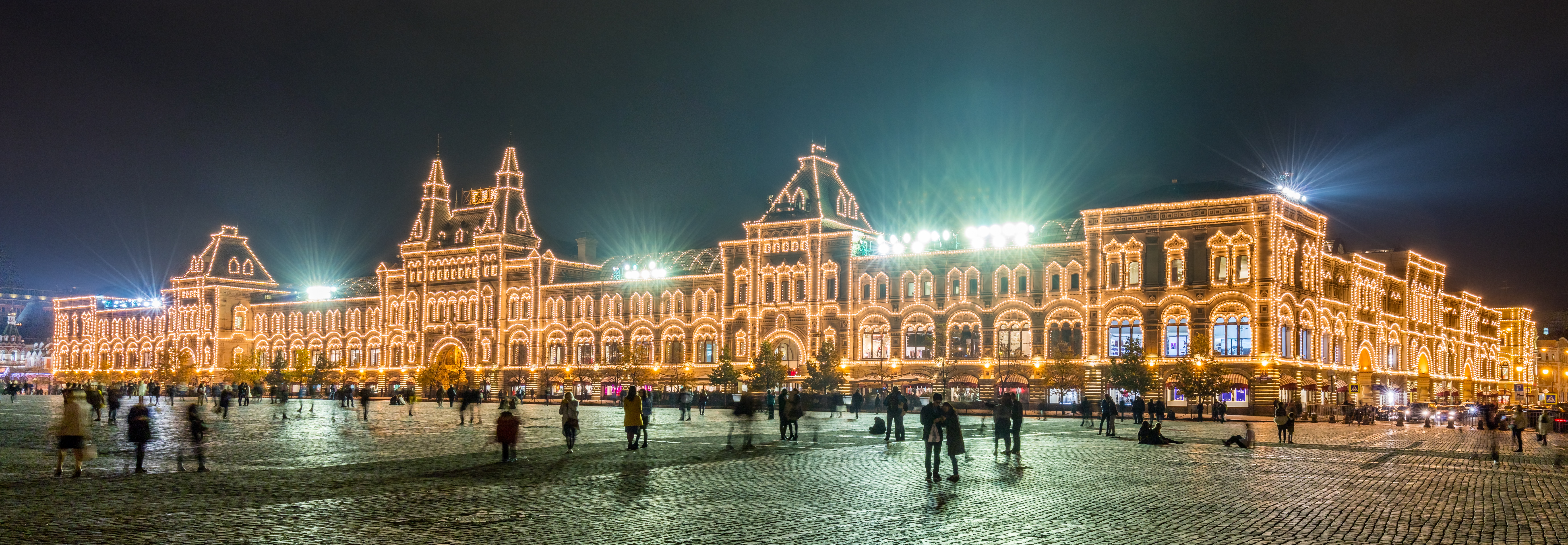 Upper Trade Rows, Moscow, Russia